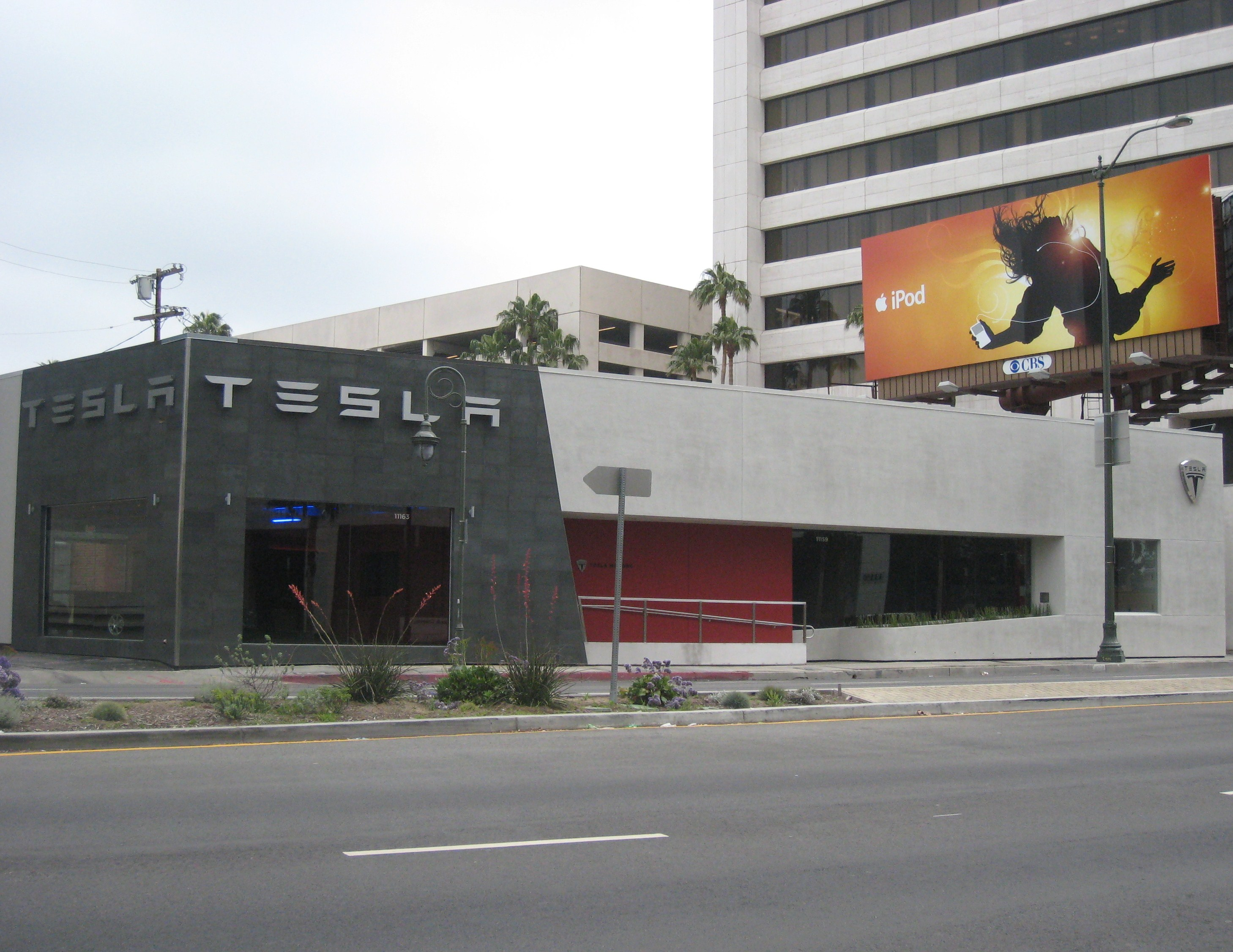 Tesla opened its first showroom in June 2008 on Santa Monica Boulevard in Los Angeles, California